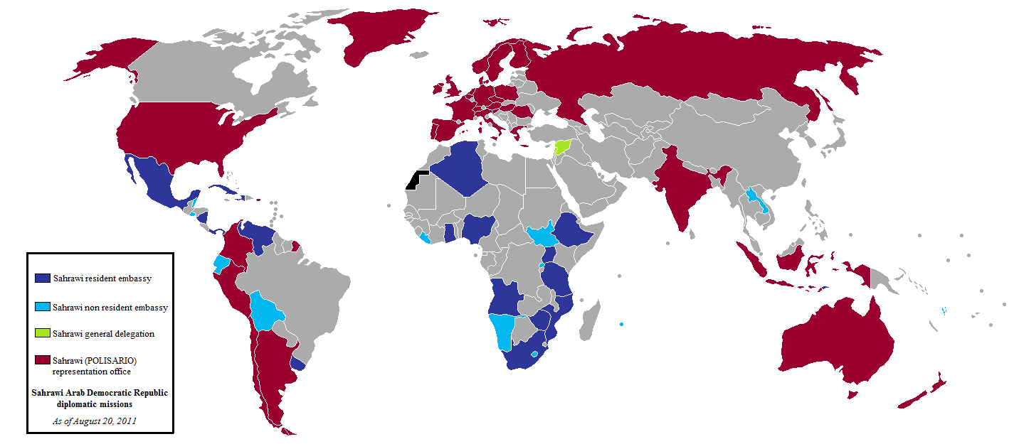 Map of Sahrawi diplomatic missions (2011): -S.A.D.R. resident embassy (dark blue) -S.A.D.R. non-resident embassy (light blue) -S.A.D.R. general delegation (green) -POLISARIO representation office (red)